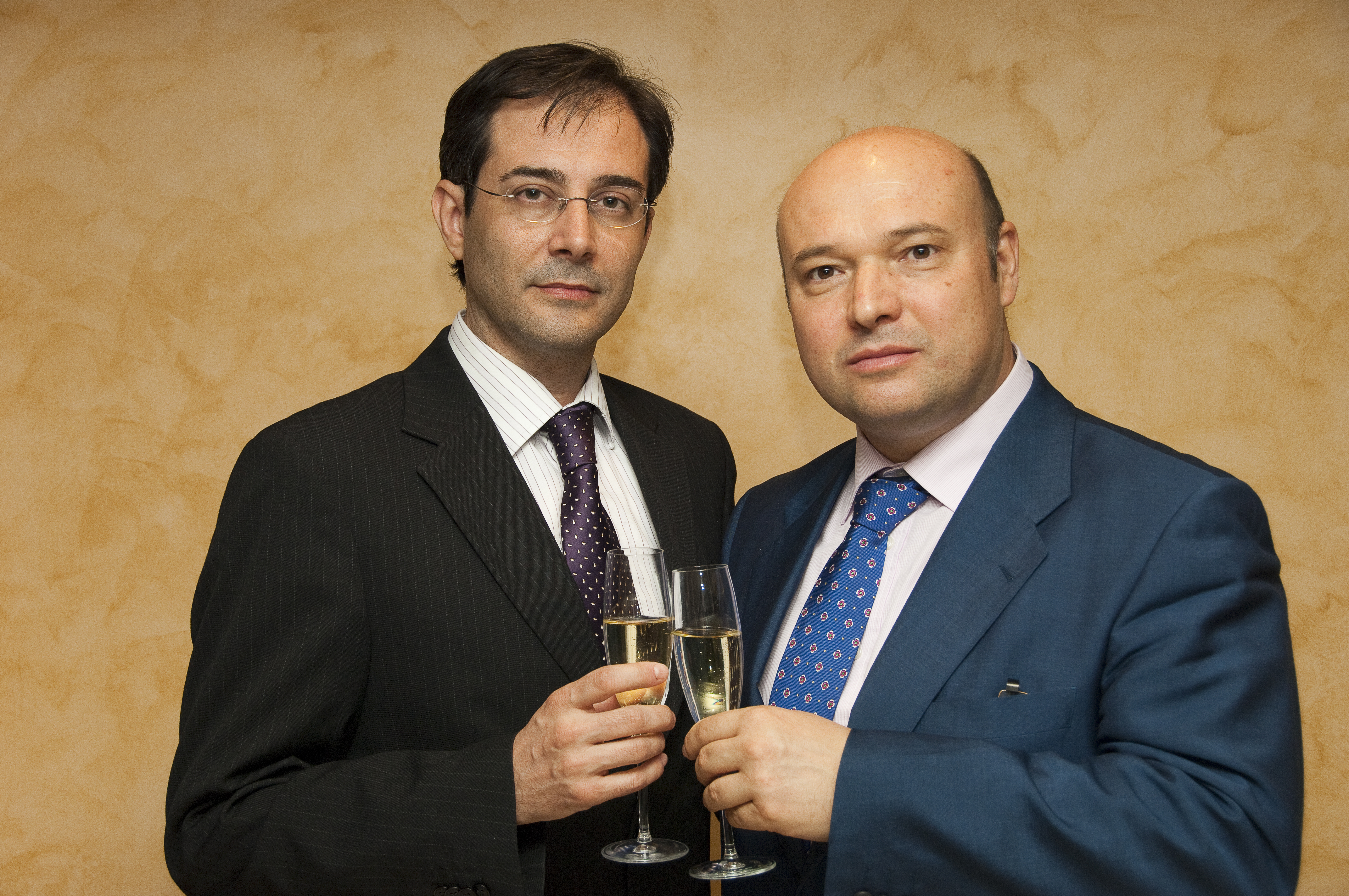 Basilio Rodríguez Cañada y José Ramón Trujillo, fundadores de Sial Pigmalión